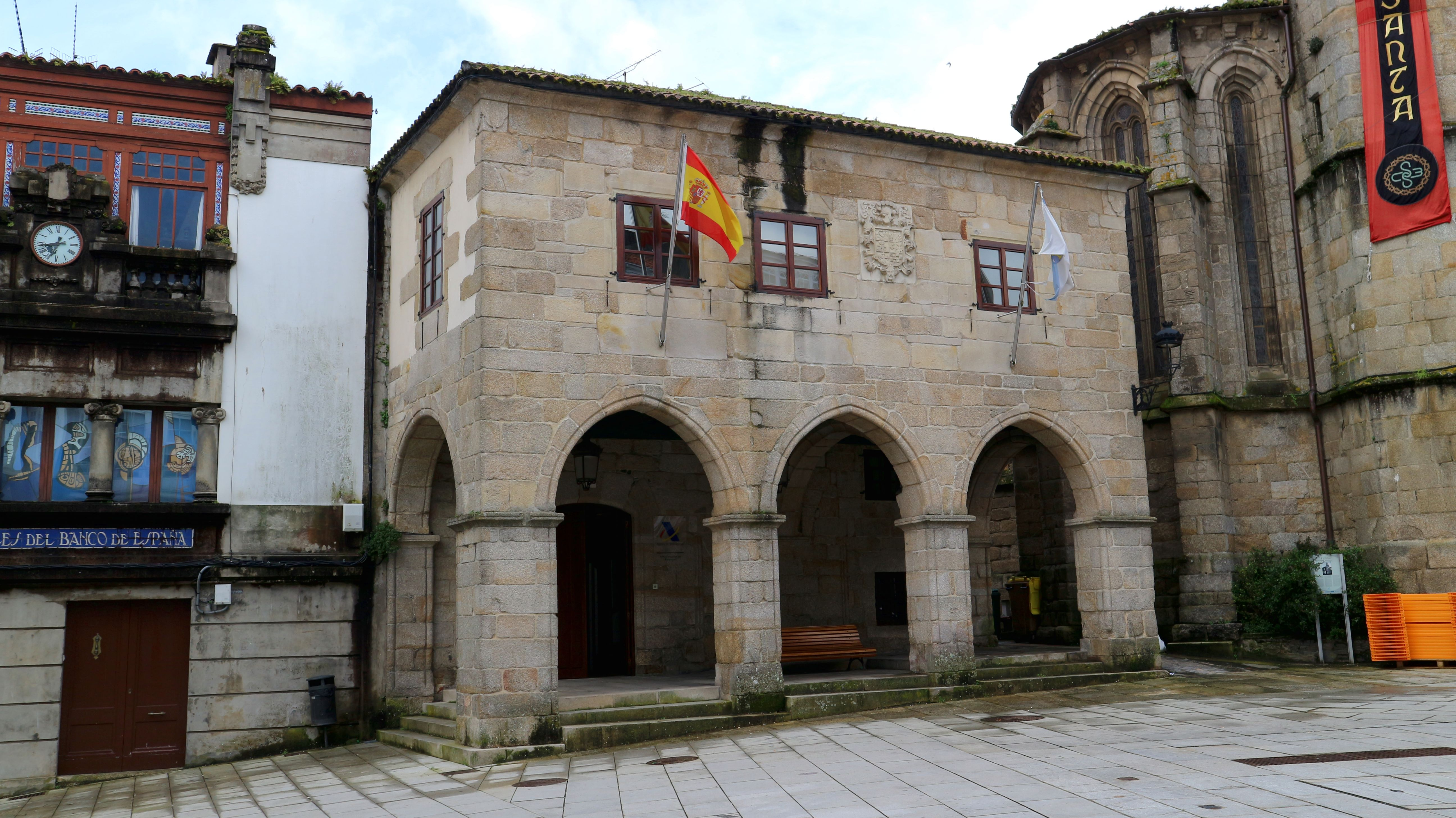 Pazo de Bendaña, Betanzos.